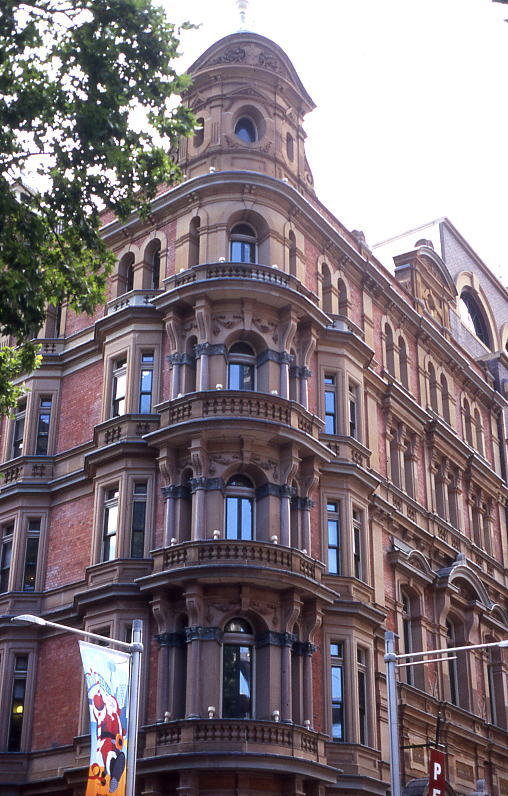 commercial building, york st, sydney